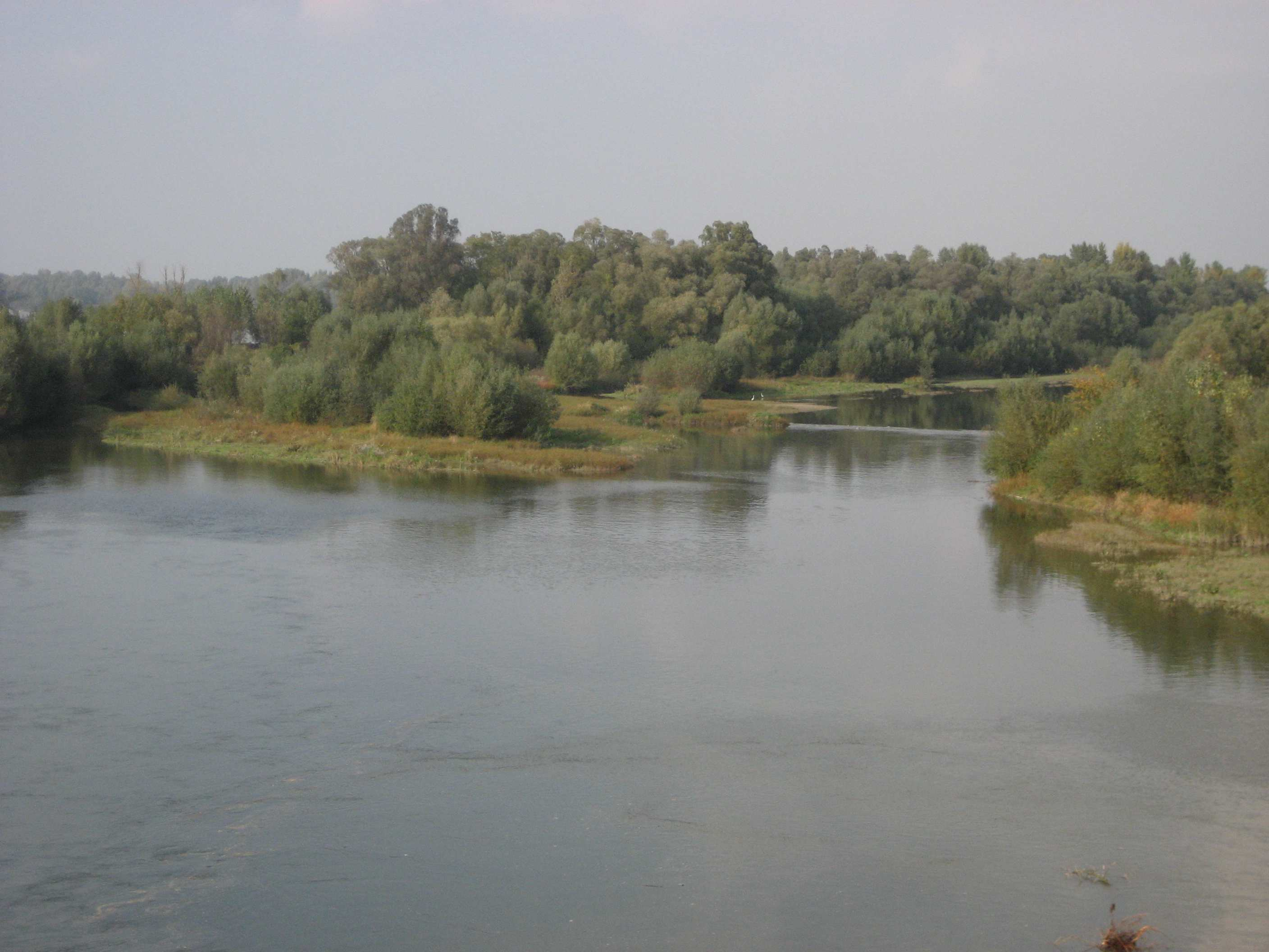 River Drava ner Molve, Croatia